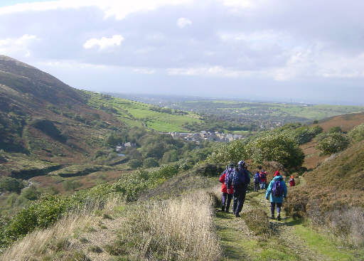 Descending from Buckton Moor towards Carrbrook, north-east of Stalybridge.